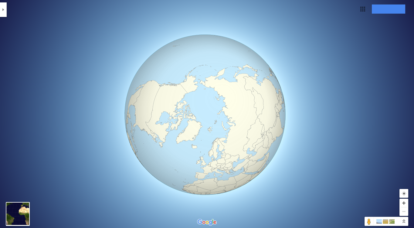 Worldmap northern - Google Maps bar